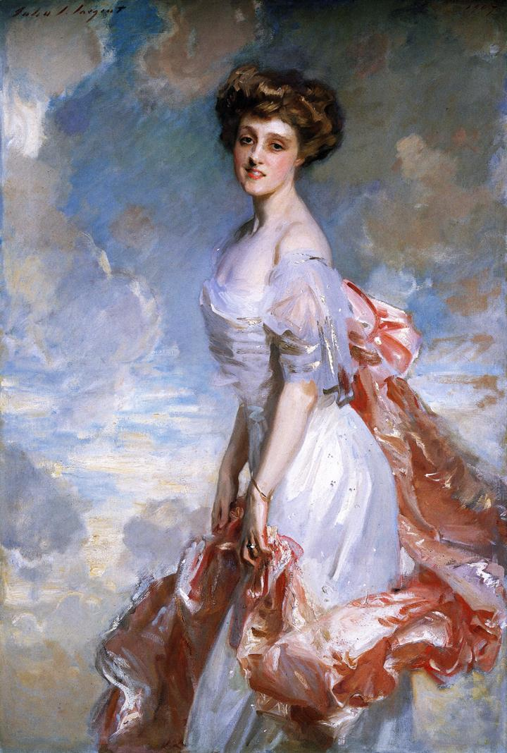 Miss Mathilde Townsend John Singer Sargent -- American painter 1907 National Gallery of Art, Washington, D.C. Oil on canvas 152.7 x 101.6 cm (60 1/8 x 40 in.) Gift of the sitter, Mrs. Sumner Welles 1952.3.1 Jpg: National Gallery DC